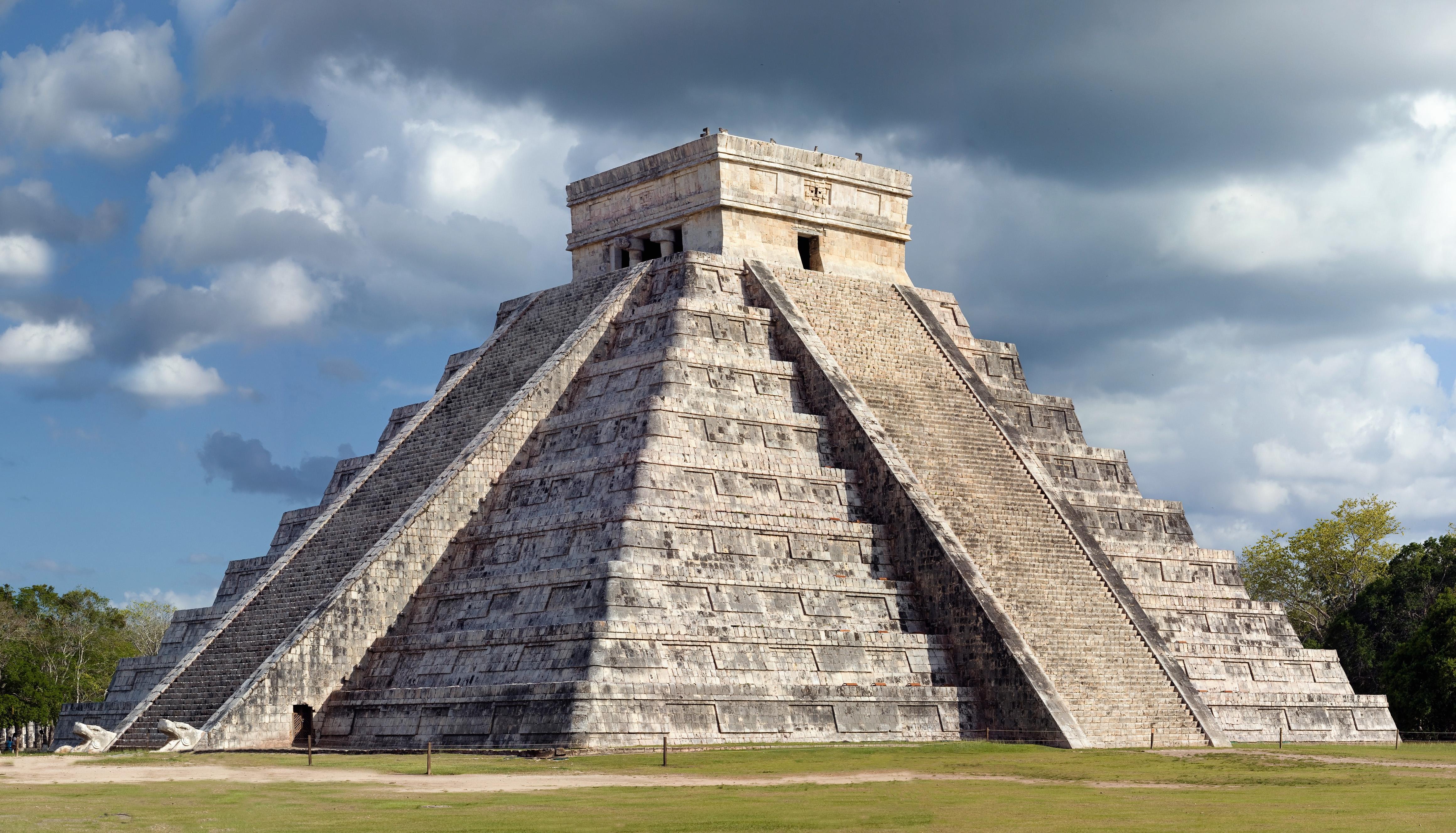 El Castillo with corrections made to original exposure